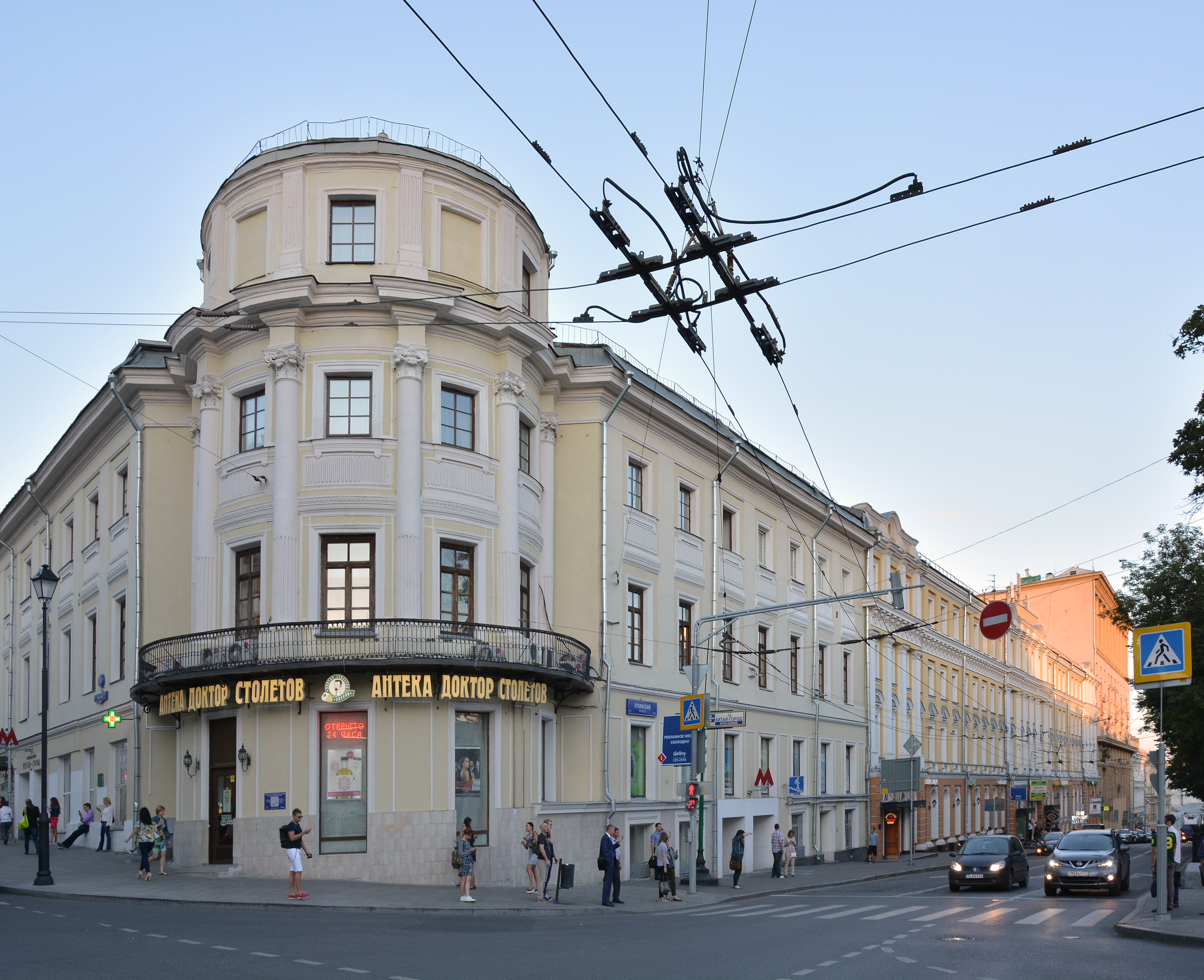 Moscow. Manor of Countess V.P. Razumovskaya (end of the XVIII century.) with semi-rotunda at the corner of Maroseyka (left) and Lubyansky passage (right).